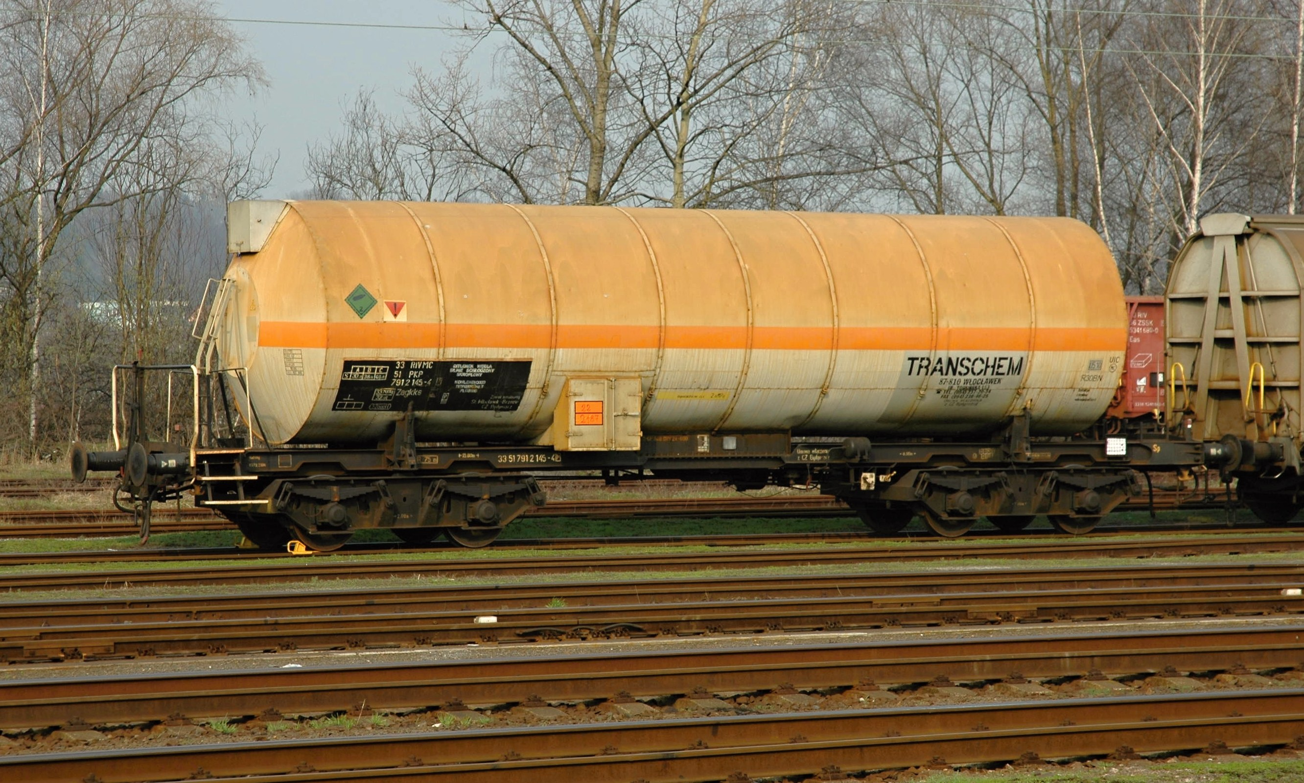 Zagkks tank waggon No. 33 51 791 2 145-4 of Transchem for transport of refrigerated liquid carbon dioxide; Petrovice u Karviné station, the Czech Republic